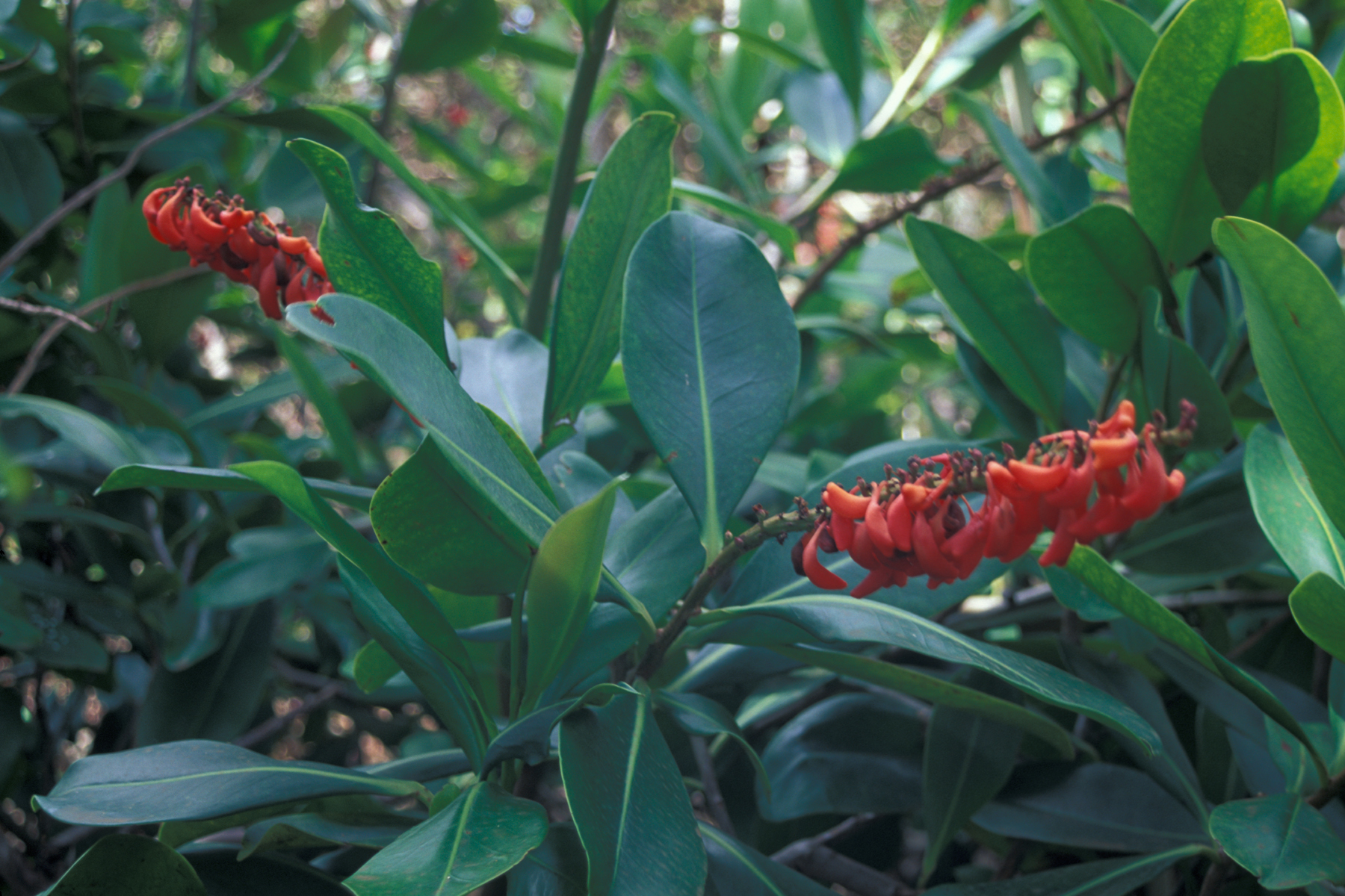 Norantea guianensis subsp. guianensis (flowers). Location: Maui, Enchanting Floral Gardens of Kula